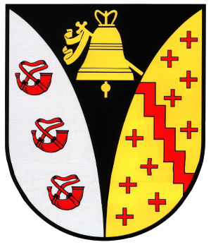 Coat of arms of Panzweiler